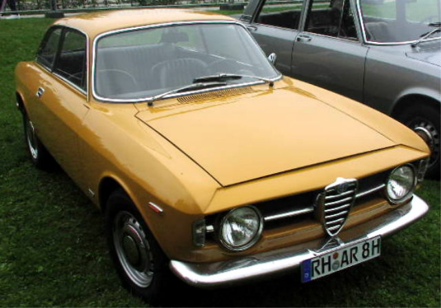 Alfa-Romeo GT 1300 Junior Coupe